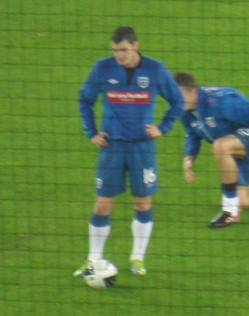 Image of adam johnson